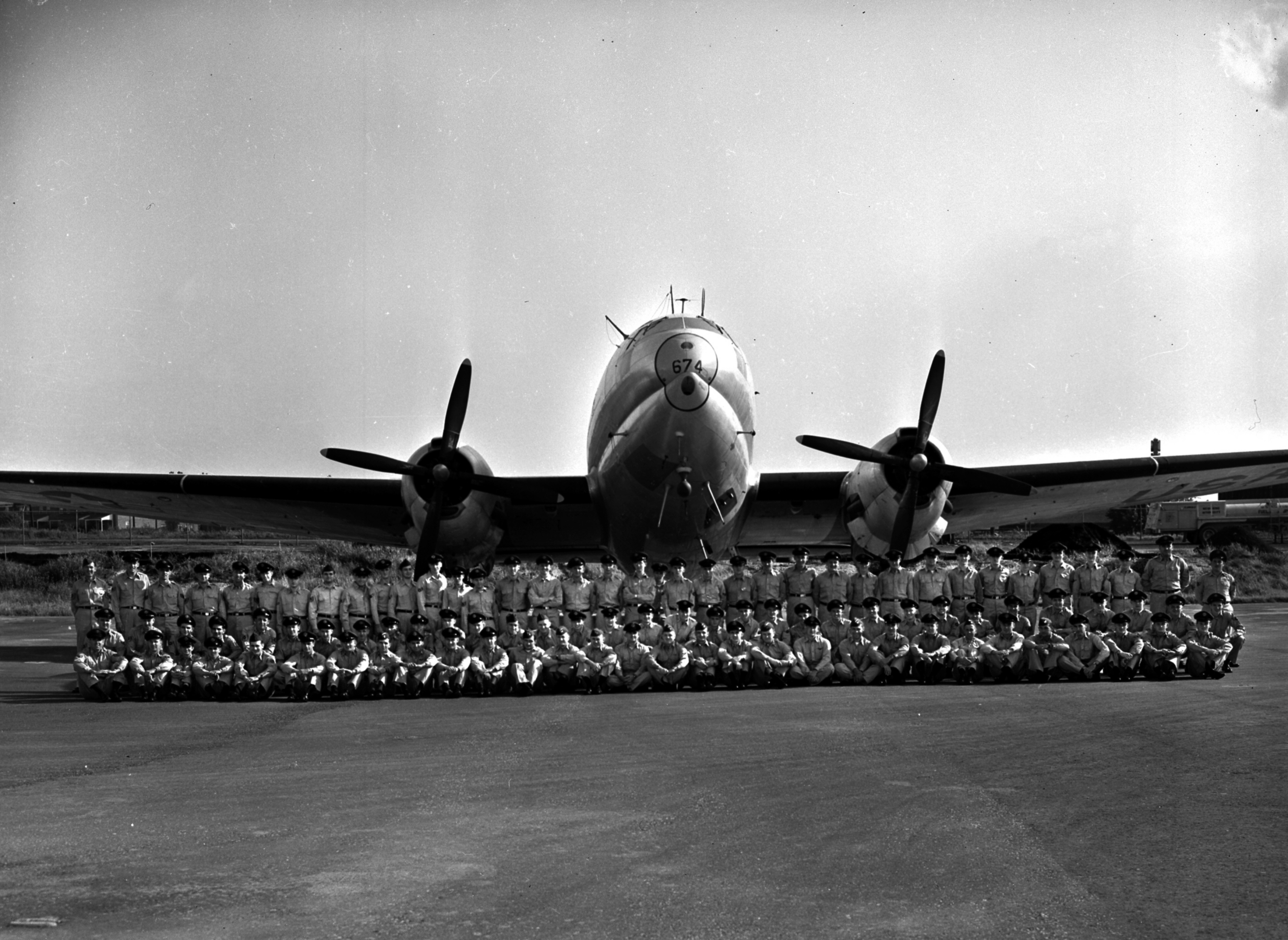 Members of the Maryland Air National Guard's 135th Air Resupply Group pose in front of one of the unit's Curtiss C-46D Commando aircraft on 10 September 1955, the day the unit received federal recognition. The 135th was one of only a handful of Air Force special air warfare units in existence at the time.